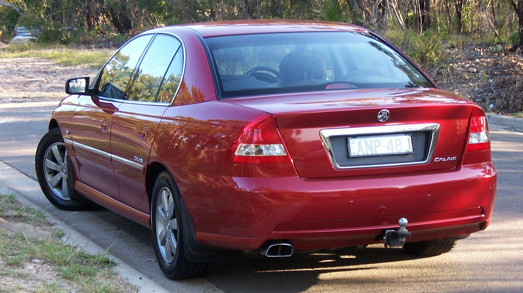 2002–2003 Holden Calais (VY) sedan. Photographed in New South Wales, Australia.